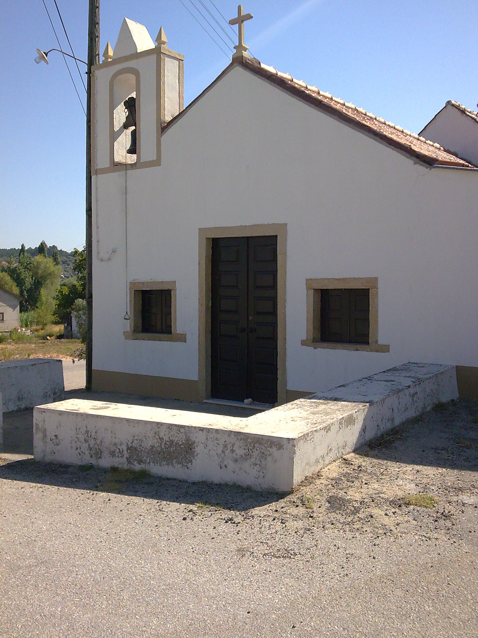 Chapel of Santa Marta in Chão de Maçãs, Sabacheira, Portugal